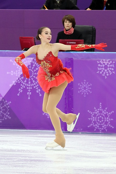 Alina Zagitova at the 2018 Winter Olympic Games - Free program